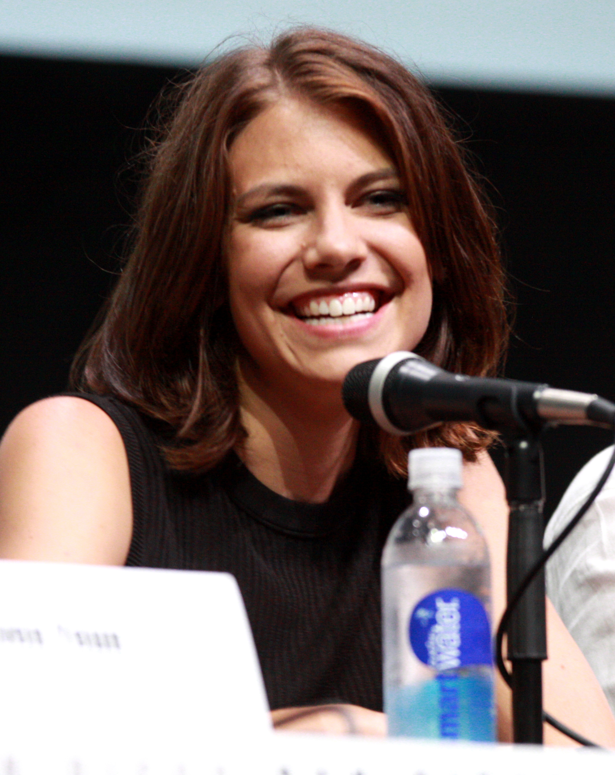 Lauren Cohan at the 2013 San Diego Comic Con International in San Diego, California.